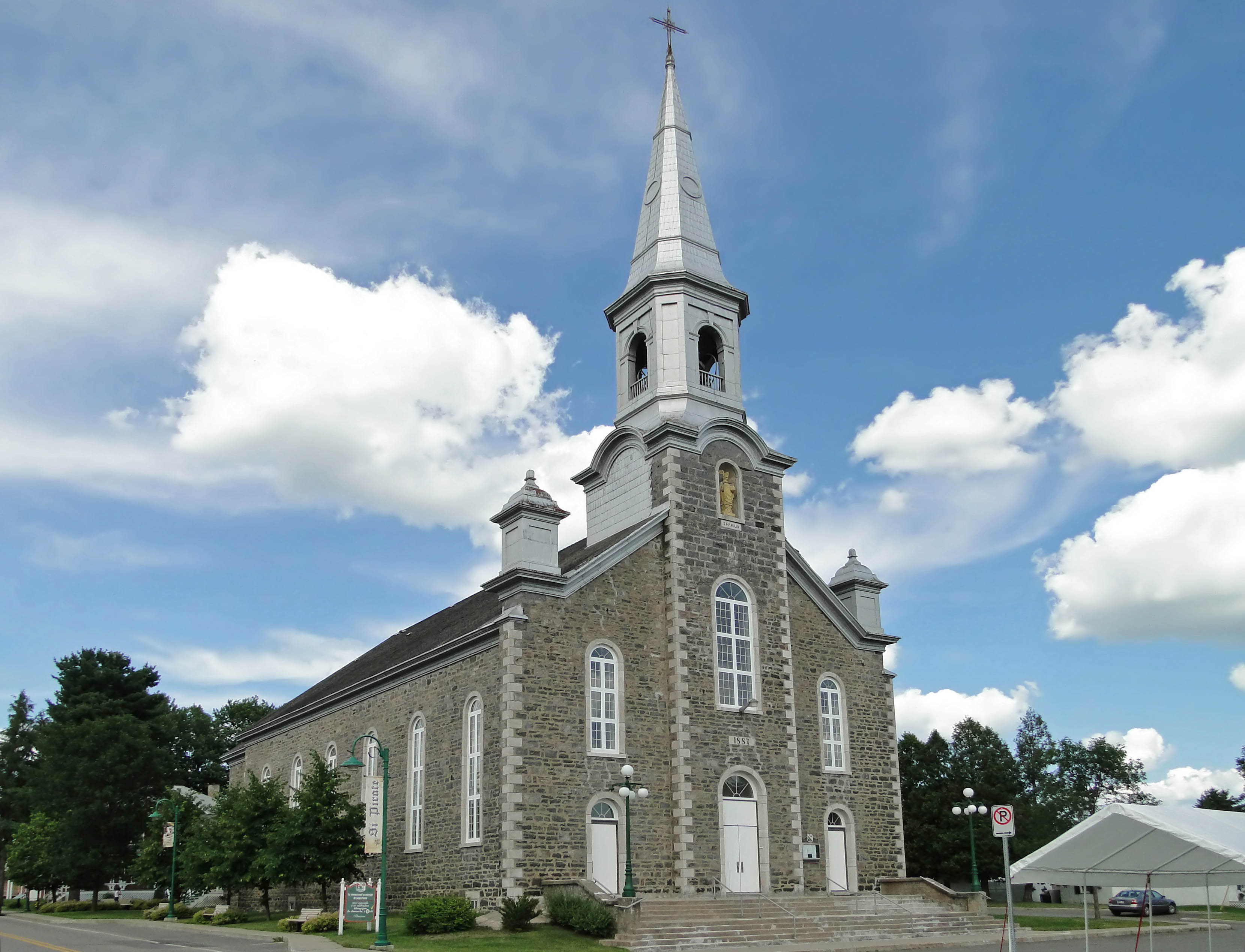 Saint-Paulin Church (1887), Saint-Paulin, province of Quebec, Canada